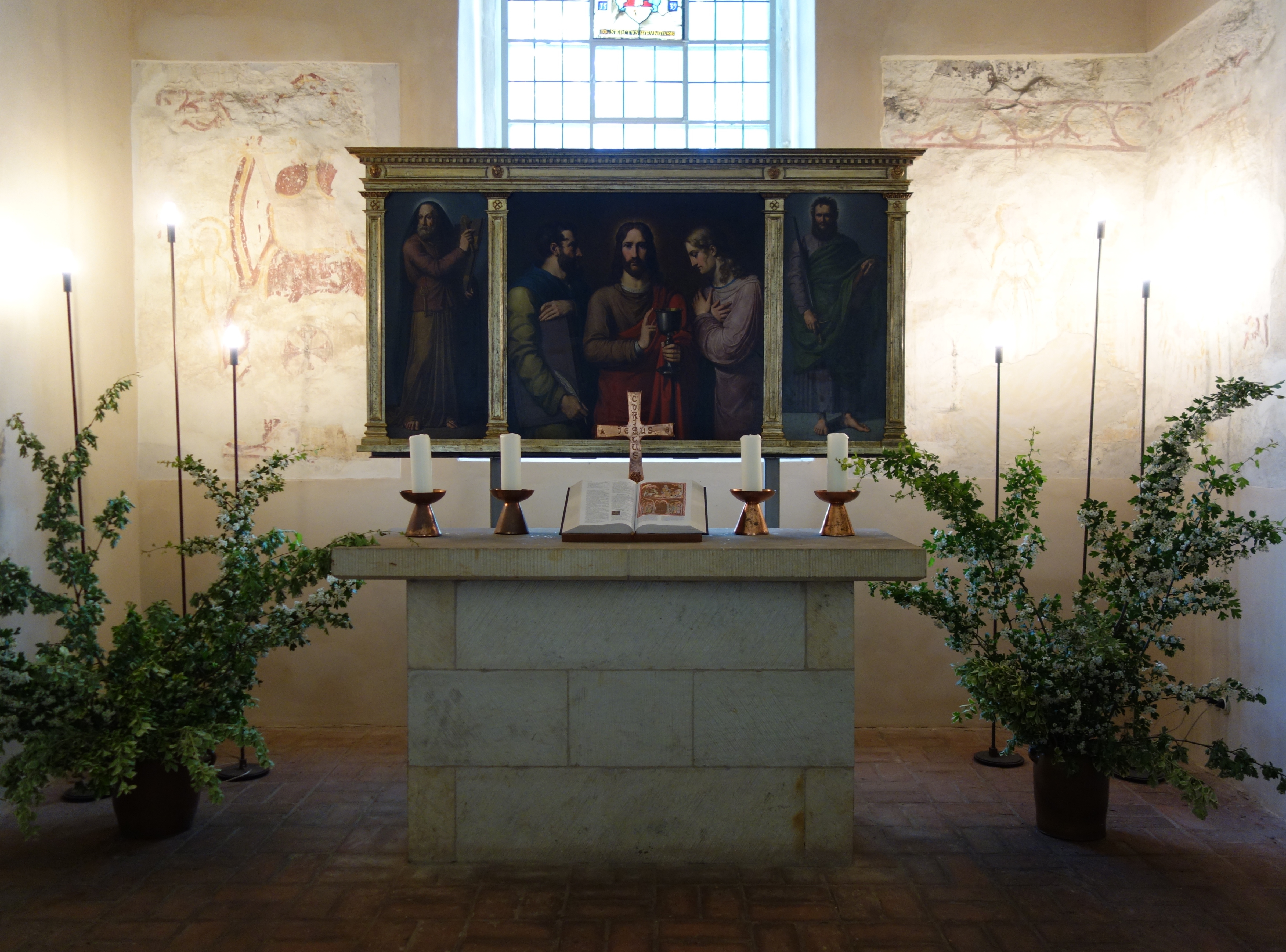 Altar of church in Paretz, Ketzin municipality, Havelland district, Brandenburg state, Germany